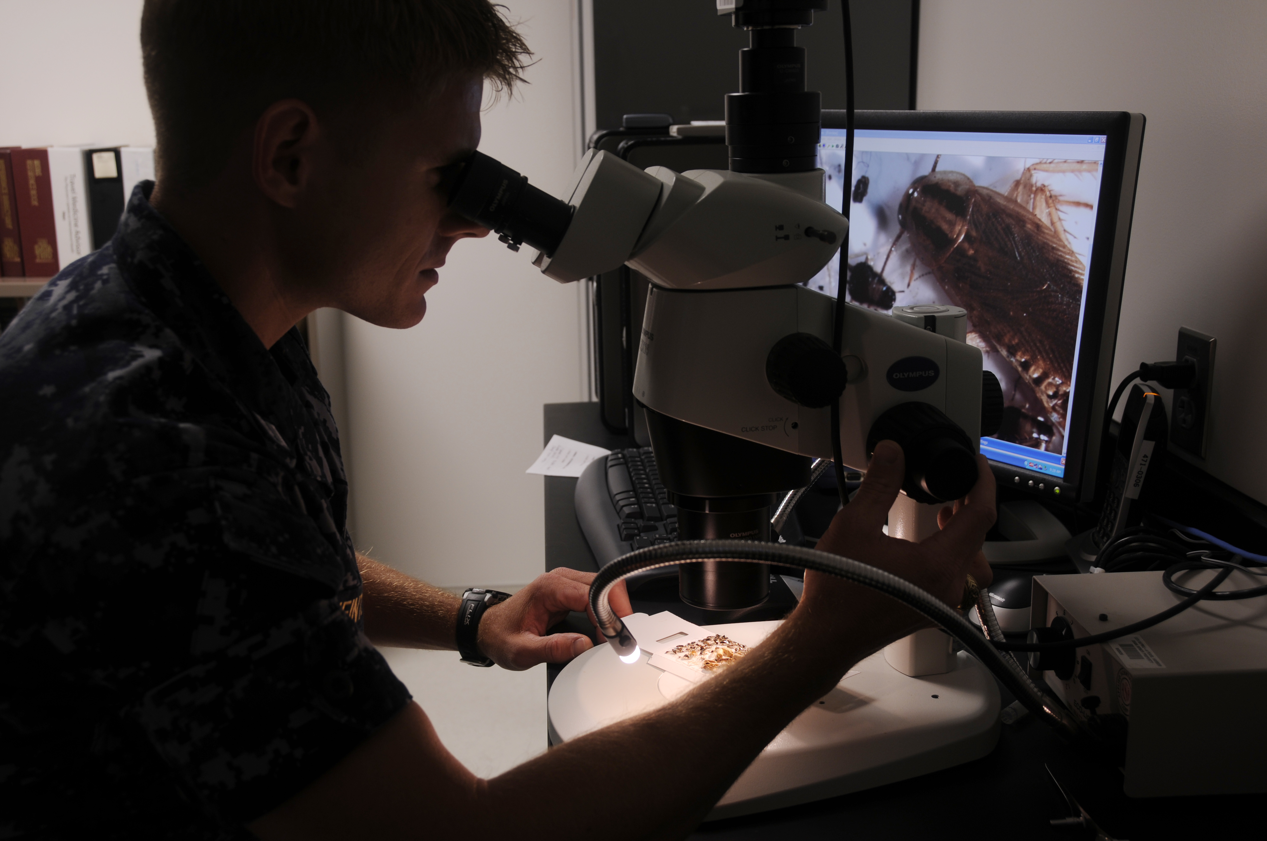 PEARL HARBOR (May 6, 2010) Lt. Brian Heintschel, assigned to the entomology division of Navy Environmental and Preventive Medicine (NEPMU) 6 at Joint Base Pearl Harbor-Hickam, studies a sample of insects collected from ships and shore facilities. Medical entomology is the study of insects, spiders, ticks and mites, collectively referred to as arthropods, and the diseases they transmit. NEPMU-6 supports operational forces and shore installations by providing services such as pest control training and uniform treatment with insect repellent. (U.S. Navy photo by Mass Communication Specialist 2nd Class Mark Logico/Released)